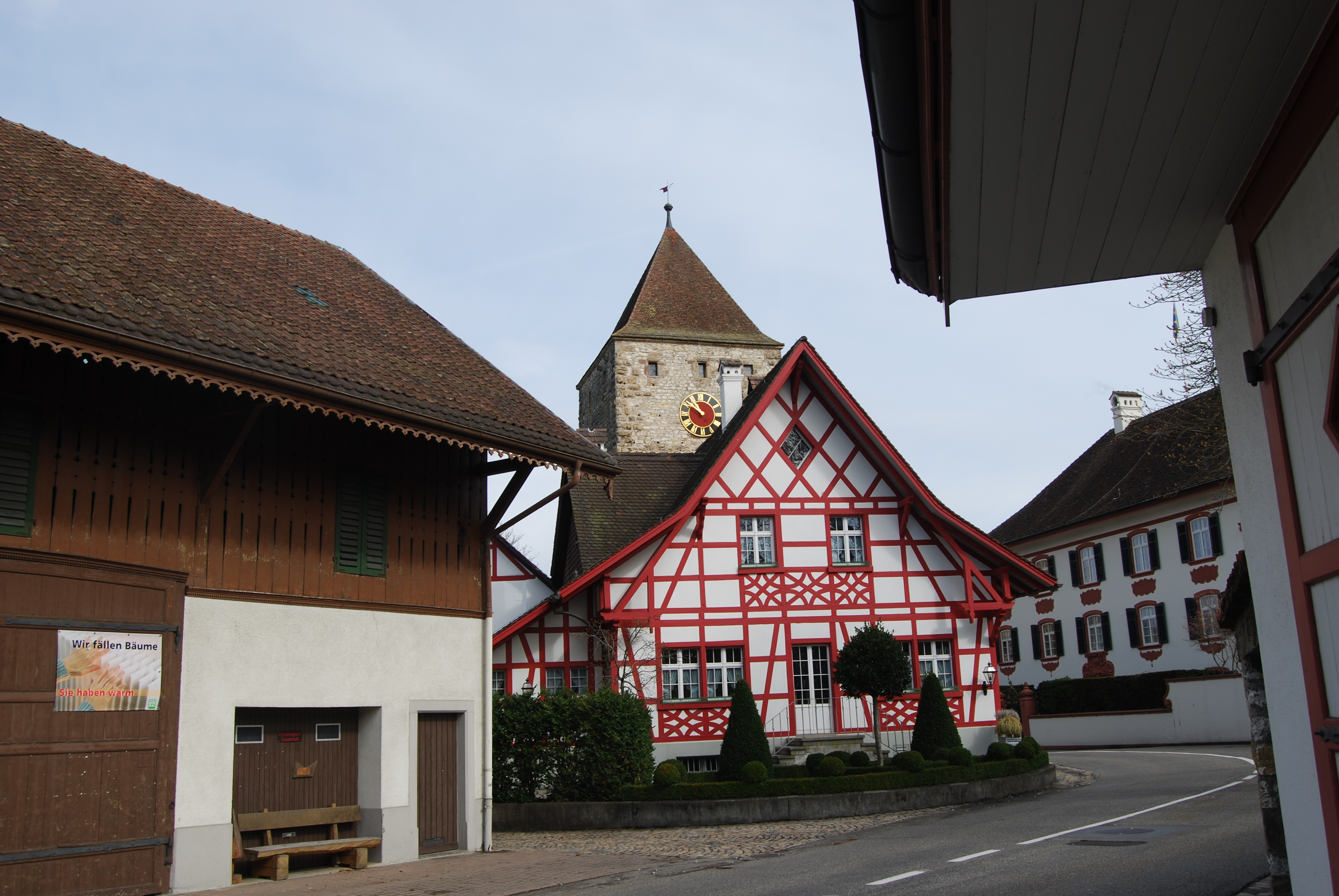 Timber framing house and tower of Kaiserstuhl, canton of Aargau, SwitzerlandEsperanto: Faktrabdomo kaj turo de Kaiserstuhl, Kantono Argovio, Svislando